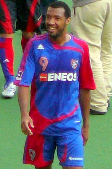 Lucas Severino, formerly of FC Tokyo